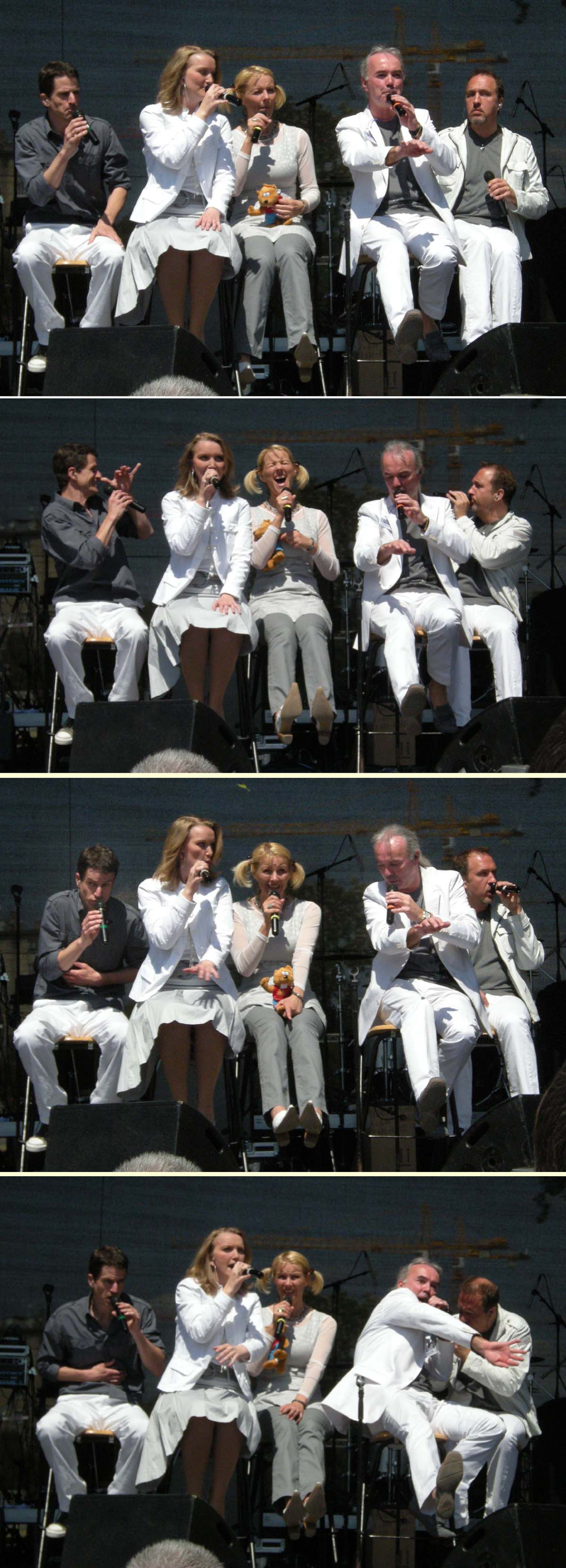 Austrian a cappella quintet Mainstreet performing on "Krieau" stage (Prater, Vienna). This event was due to opening a new section of Vienna's Subway line U2, which, by reason of EURO '08, from that day on connects Ernst-Happel-Stadion with the center of the city. The sequence shows "Mama Lulu" (Austrian dialect for app. "mom, I must pee"), on the melody of Les Humphries Singers' Mama Loo. For full Austrian dialect text and audio sample